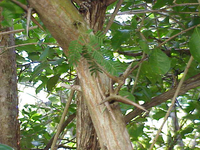 Species: Acacia collinsii Family: Fabaceae Image No. 3